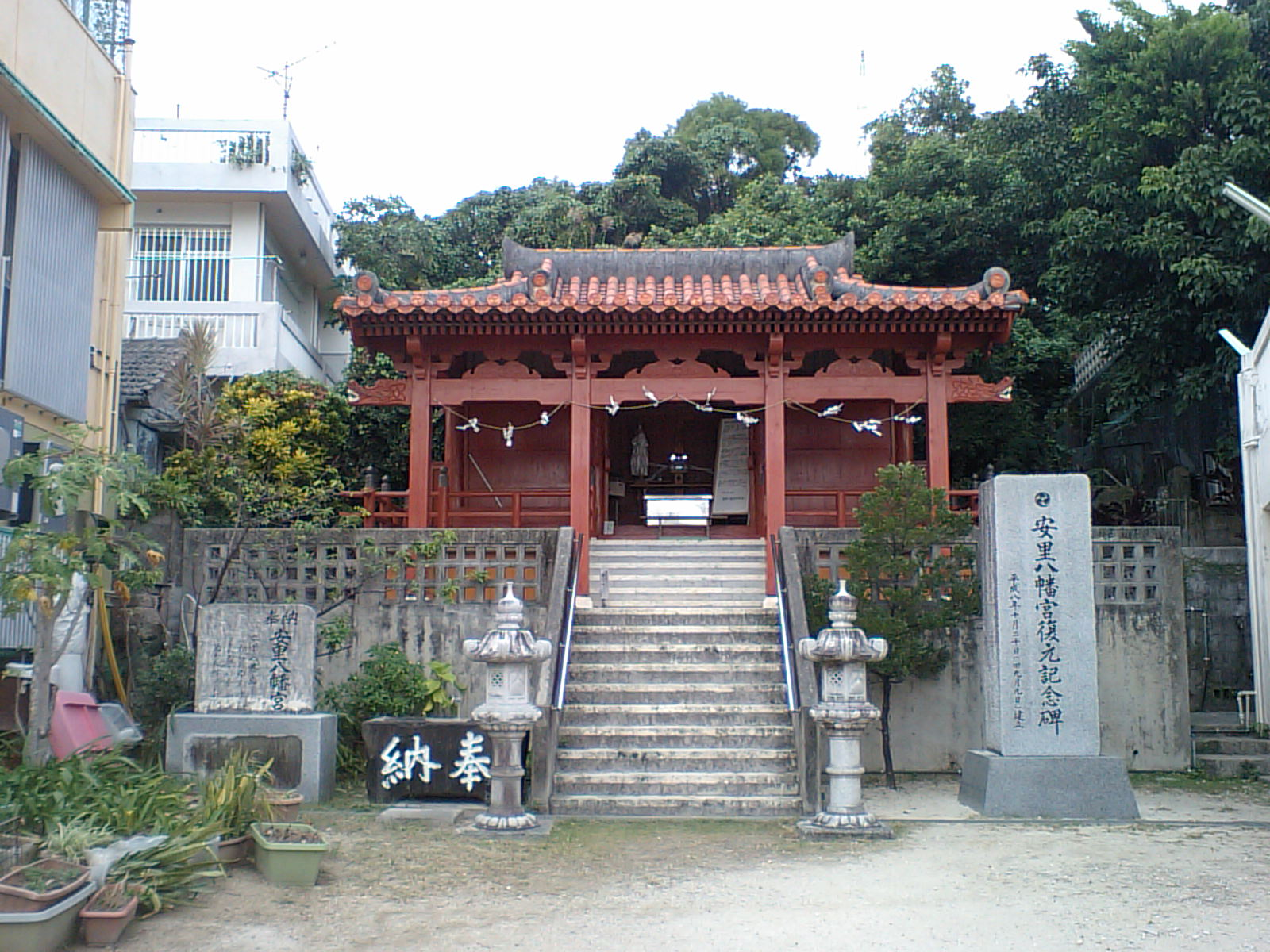 Asato-Hachimangū. This building is both as Haiden and Honden.